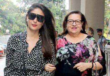 Taimur Ali Khan, Kareena Kapoor Khan, Tusshar Kapoor and others snapped at Sea Princess